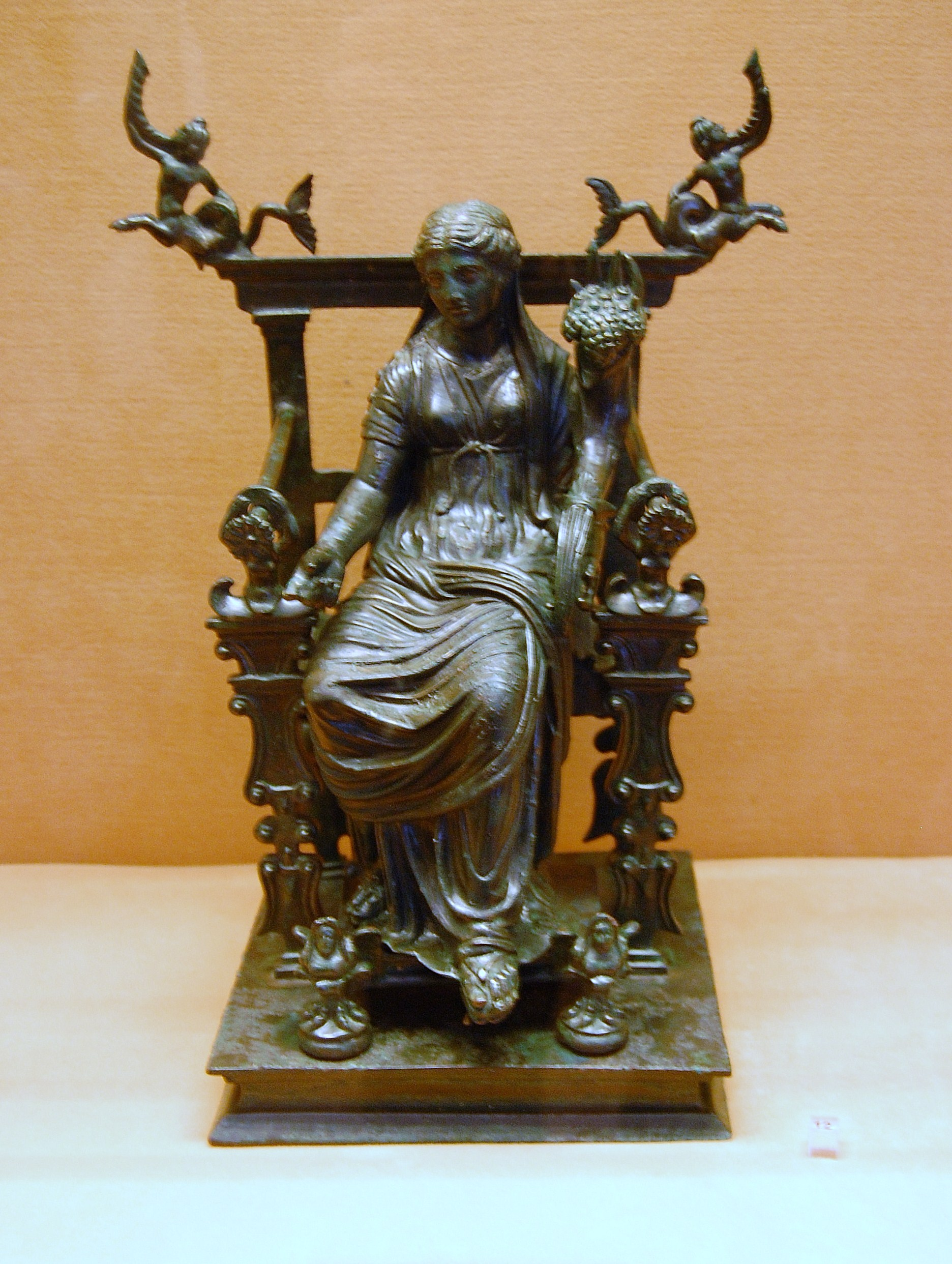 Lar - Naples National Archaeological Museum